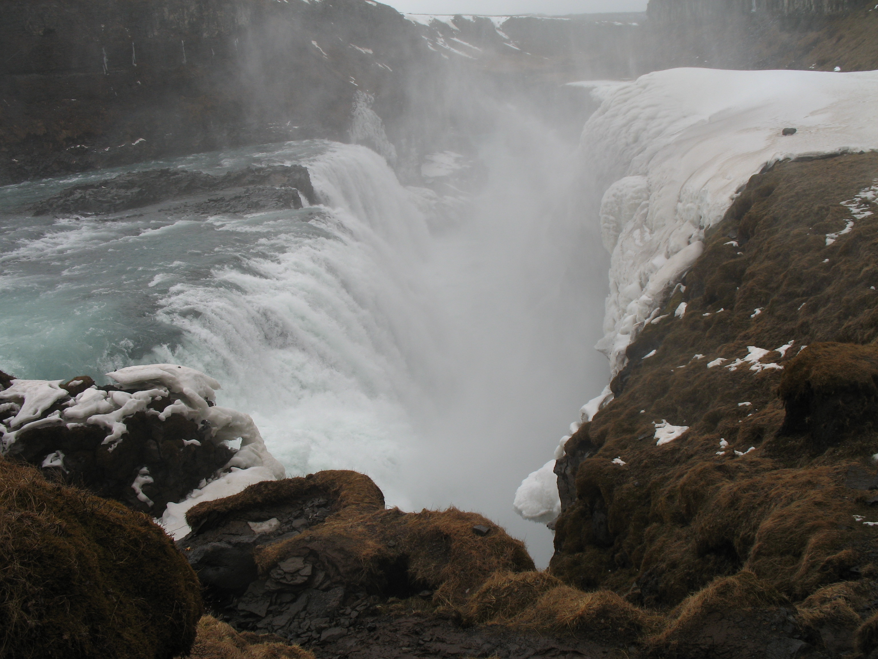 Gullfoss in late March, 2007